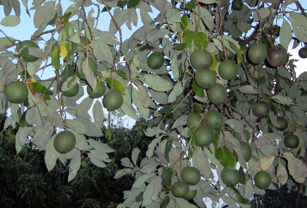 Avocado (Persea americana) - fruits on the tree, Réunion island